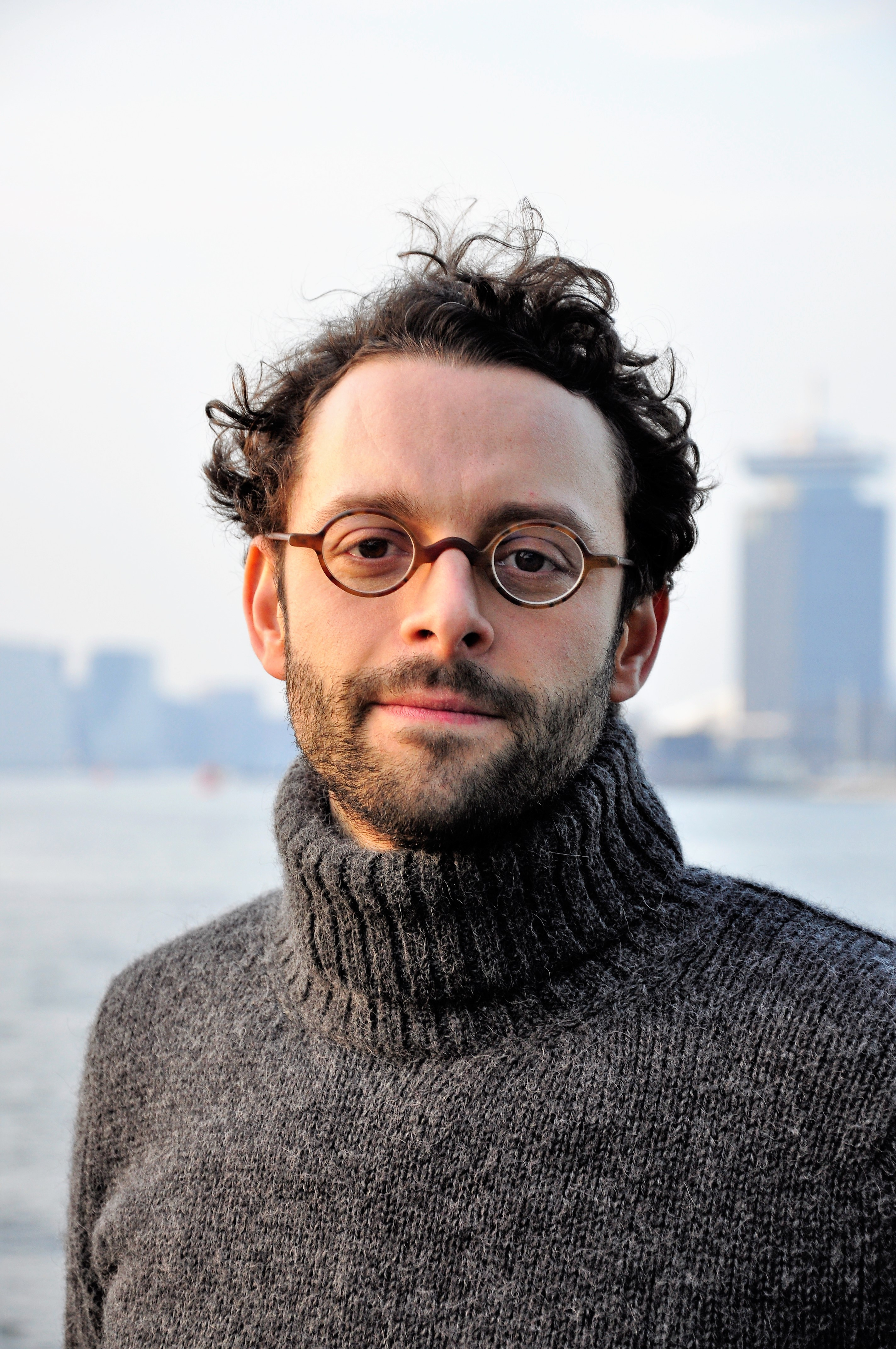 Benjamin Alard on january 22nd 2017, The Netherlands